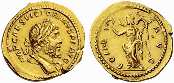 Victorinus, 269–271, AV Aureus, Cologne, late 269, 5.34 g. Obv IMP CAES VICTORINVS AVG, laureate bust right, drapery on left shoulder. Rev. COME–S AVG, Victory standing left, holding wreath and palm branch. Cohen 16; RIC 94; Schulte 5a and plate 17 (this coin). Jameson II 461 (this coin). Elmer 685. Calicó 3811 (this coin). Kent- Hirmer pl. 134, 517.